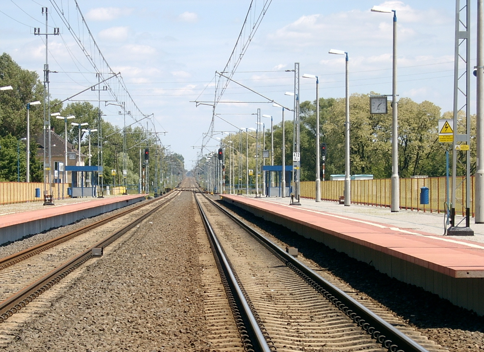 New train station in Kunowice in Poland.